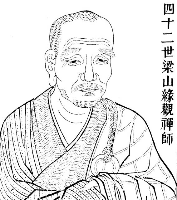 Drawing of Liangshan Yuanguan, a 10th century Zen monk